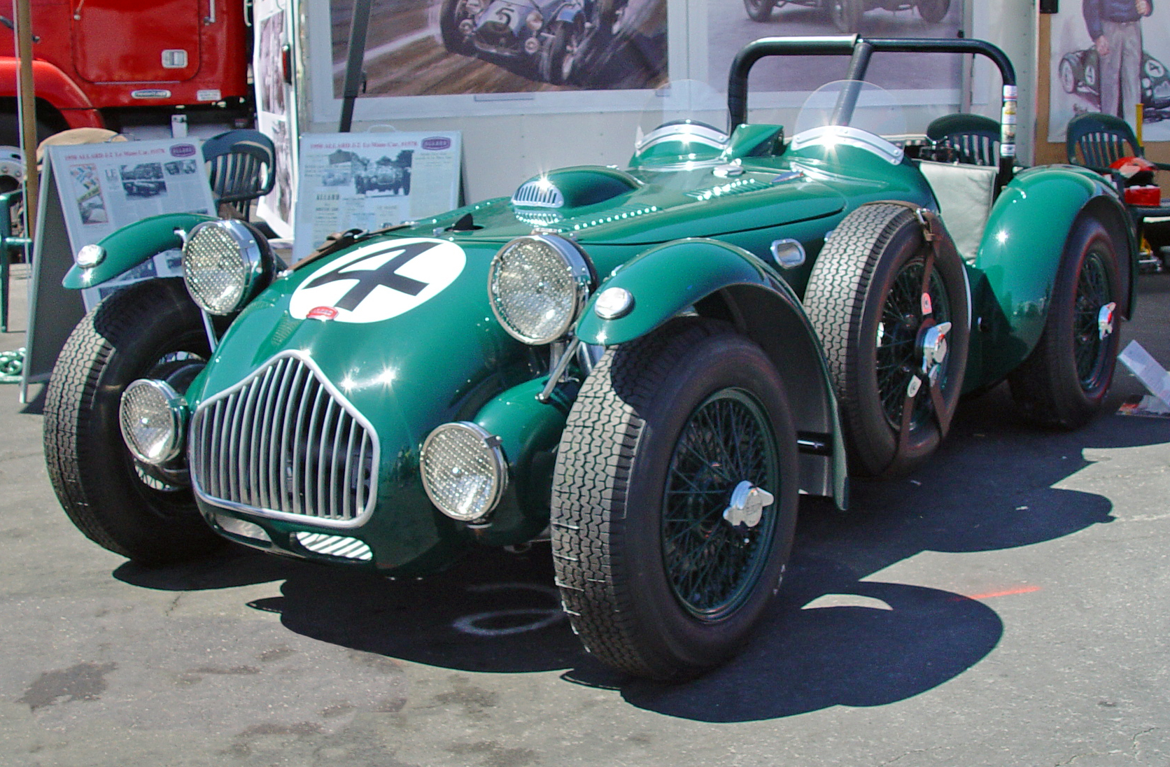 A Cadillac-engined 1950 Allard J2, raced by Steve Schuler at the Monterey Historics, Laguna Seca, 2006. This car (chassis 1578) finished third at the 1950 Le Mans, the only Allard to ever finish at Le Mans. In 1990 this car was a pile of burnt out parts.